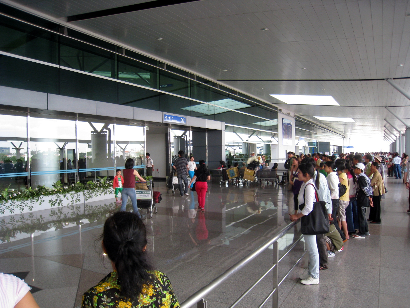 Tan Son Nhat International Airport Level 3 Concourse 新山一國際機場